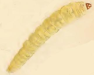 Stainton’s Natural History of the Tineina (1855–1873): Phyllonorycter spinicolella larva